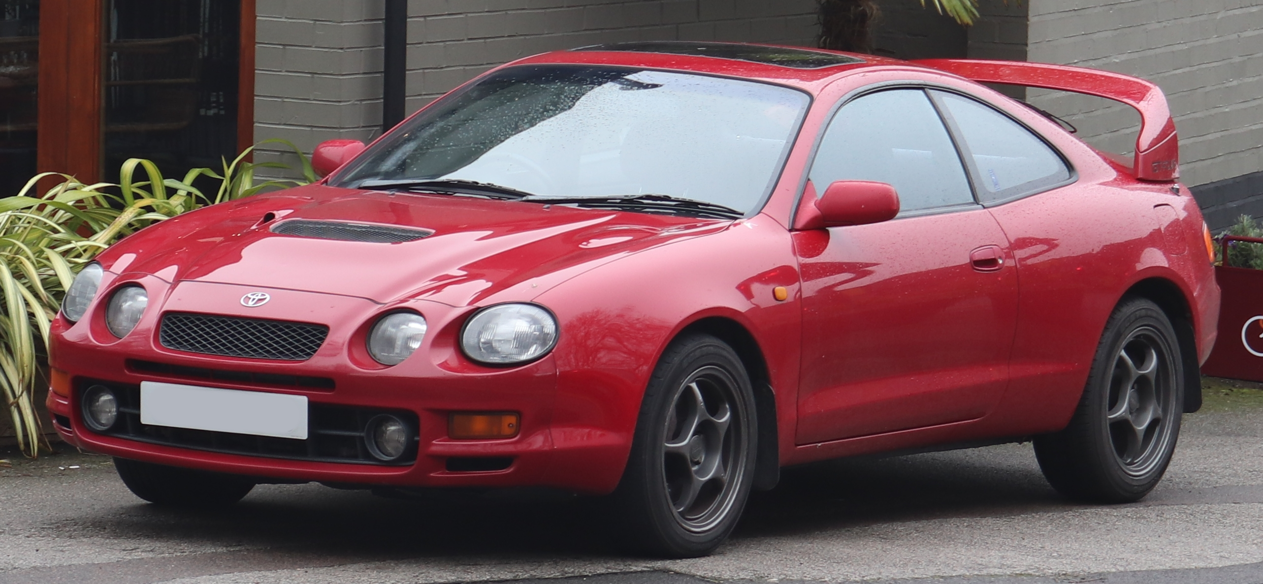 1994 Toyota Celica GT-Four WRC (ST205), shown in Rosso / Renaissance Red (colour code 3L2), photo was taken in Warwick, UK.